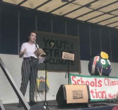 Climate protest ireland